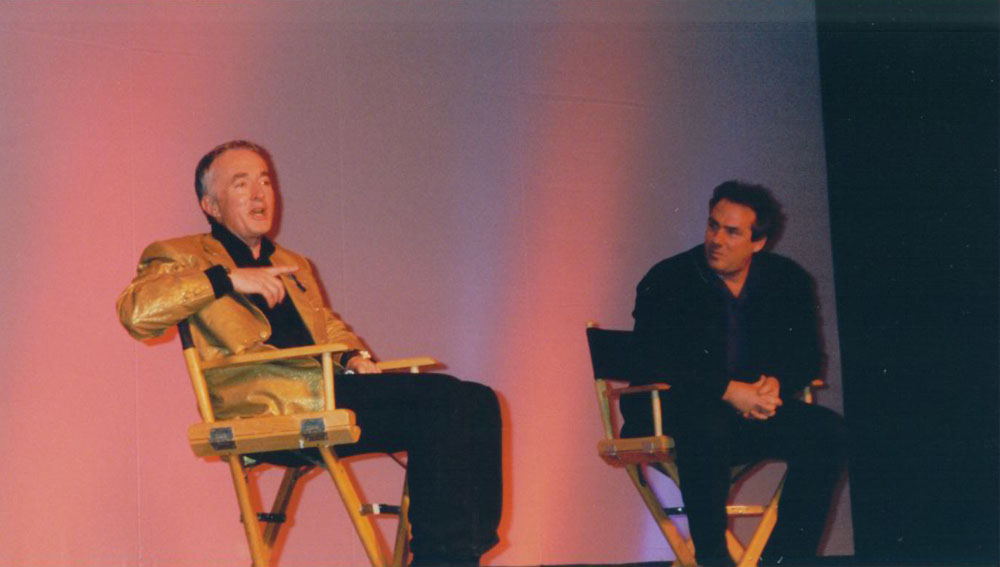 Star Wars Celebration (the 1st) - Anthony Daniels and Rick McCallum